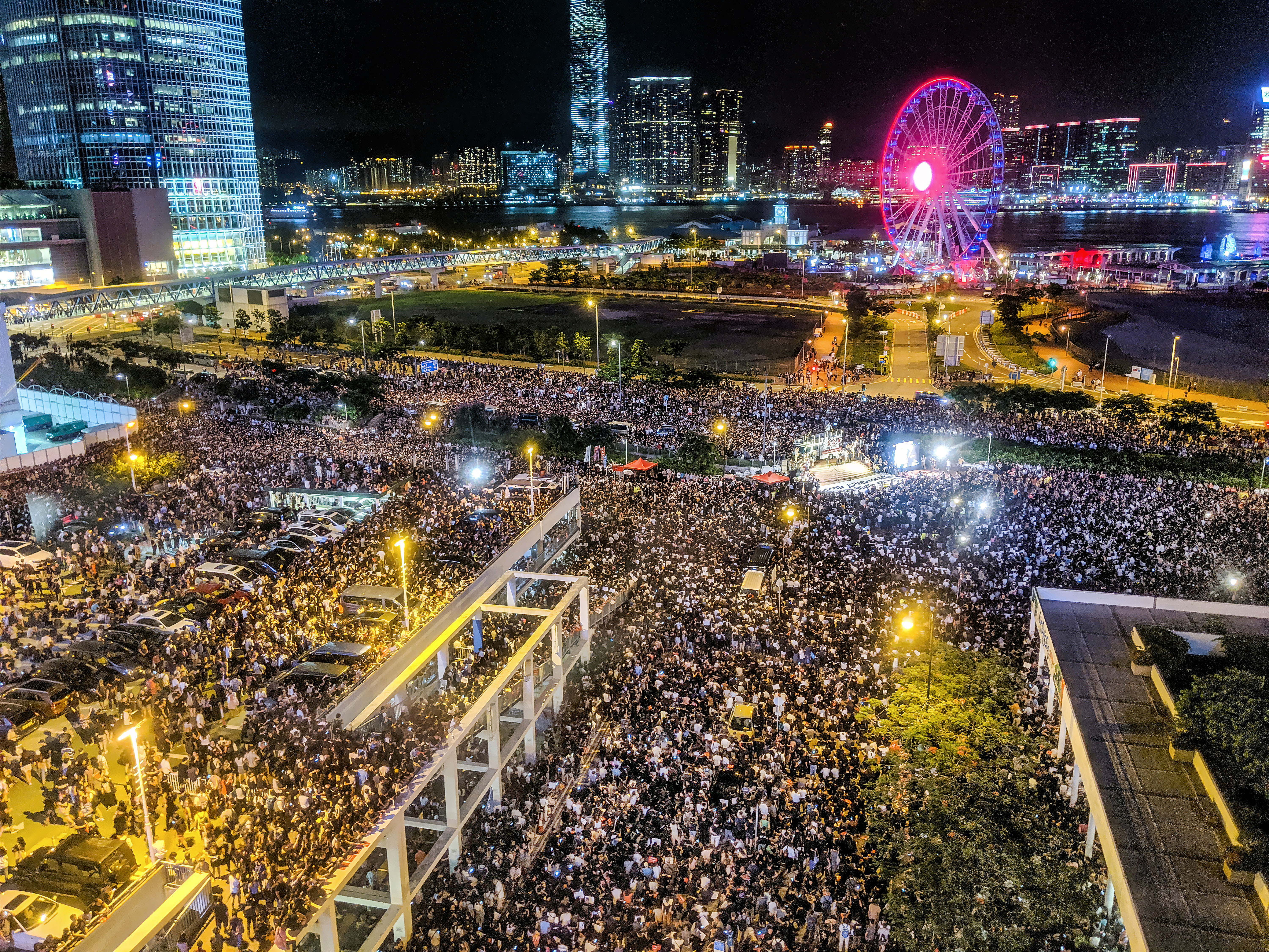 20190626 Hong Kong anti-extradition bill protest